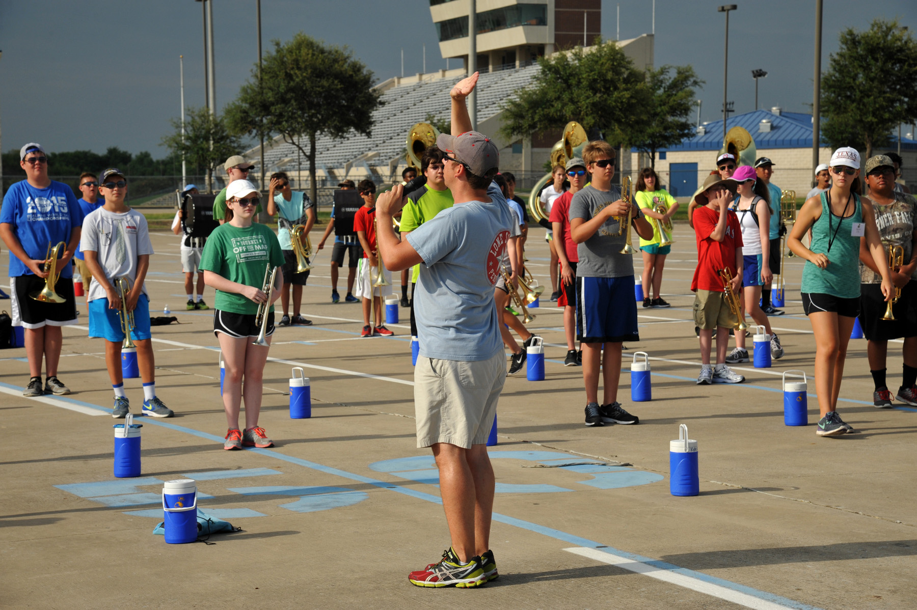 The McMillen marching band practices its performance during the summertime.